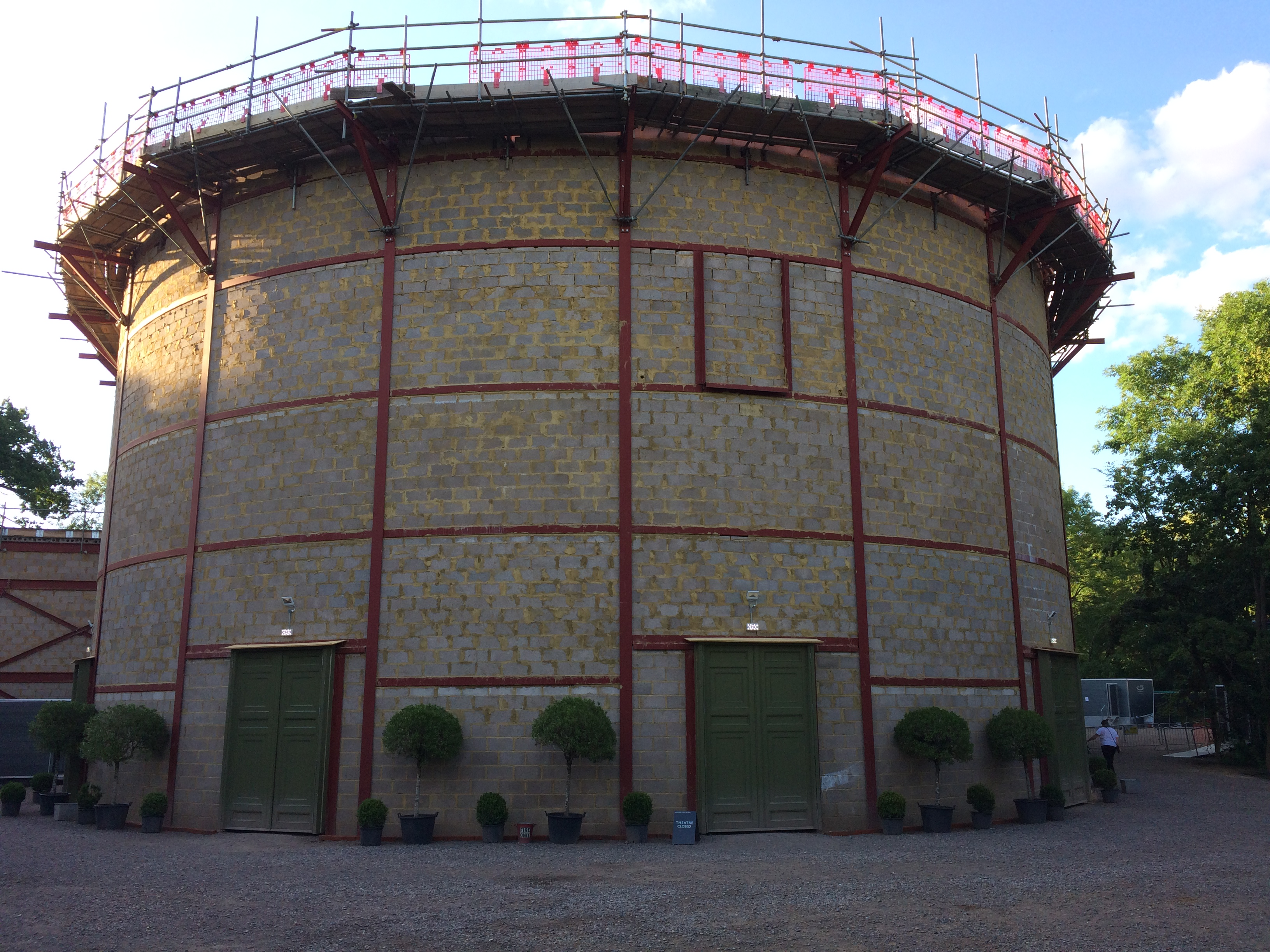 Theatre in the Woods - Grange Park Opera